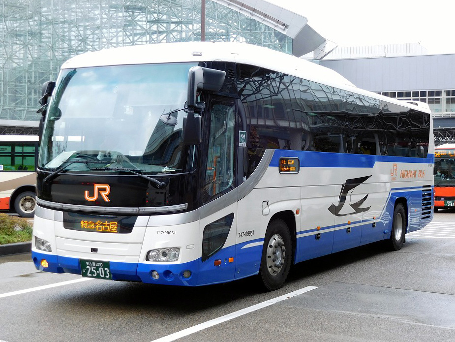 JR Tokai bus Hino S'elegahighway bus "Nagoya-Kanazawa"